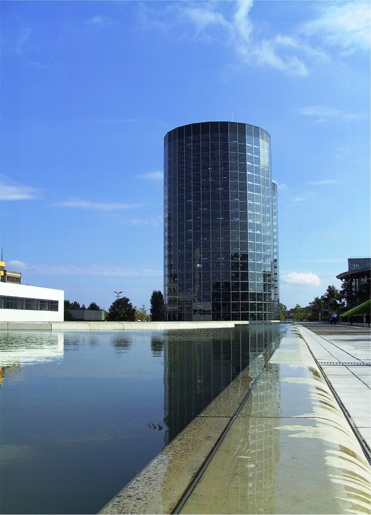 The two 60 meter/200 ft tall glass silos in the Autostadt in Wolfsburg.